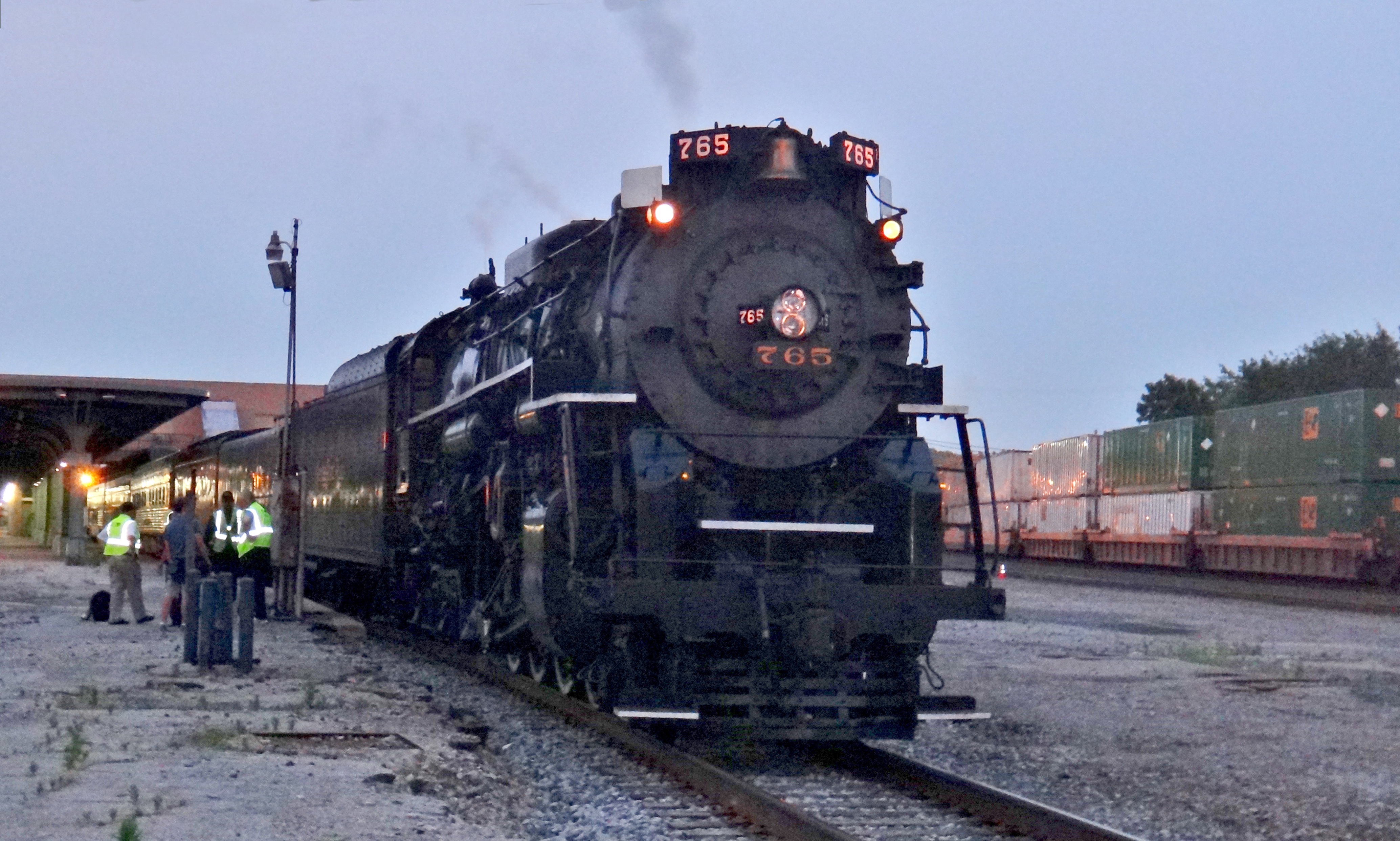 Nickel Plate Steam Engine No. 765 parked at the Central Union Terminal in Toledo Ohio.